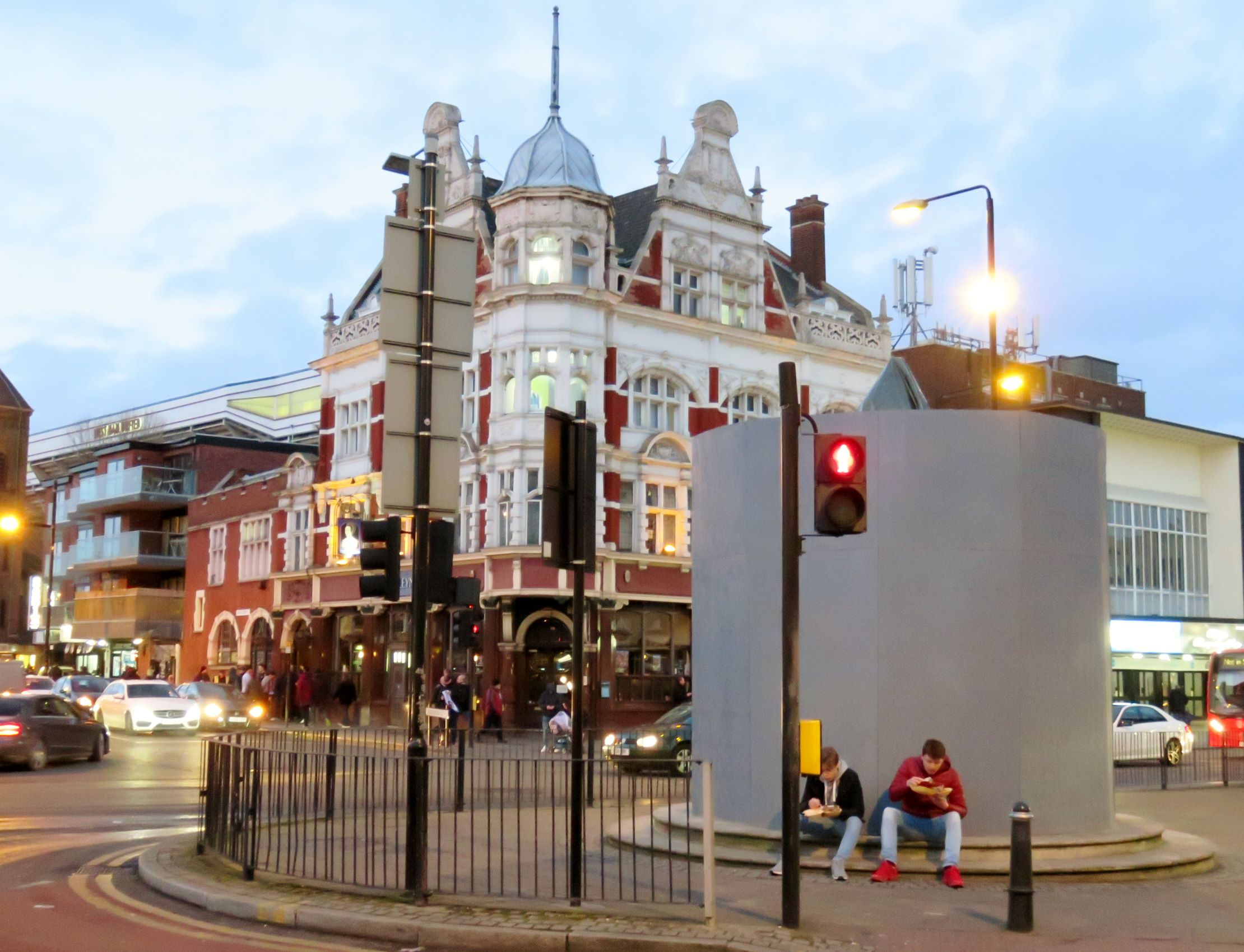 The World Cup Sculpture boarded-up for protection before the visit of Tottenham Hotspur supporters to the Boleyn Ground, Newham, London